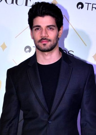 Sooraj Pancholi graces Vogue Beauty Awards 2017.